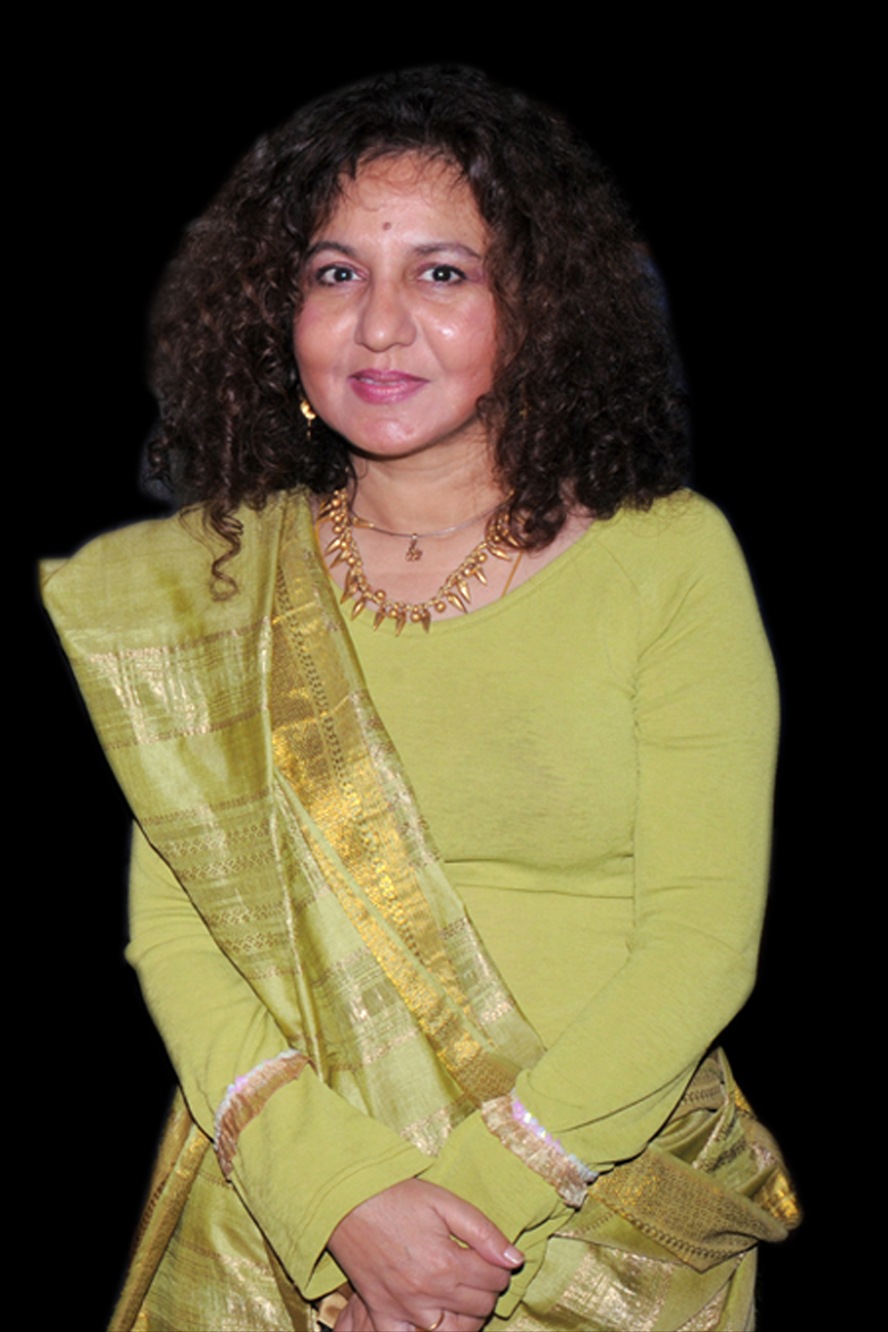 An actor, director, producer and director.